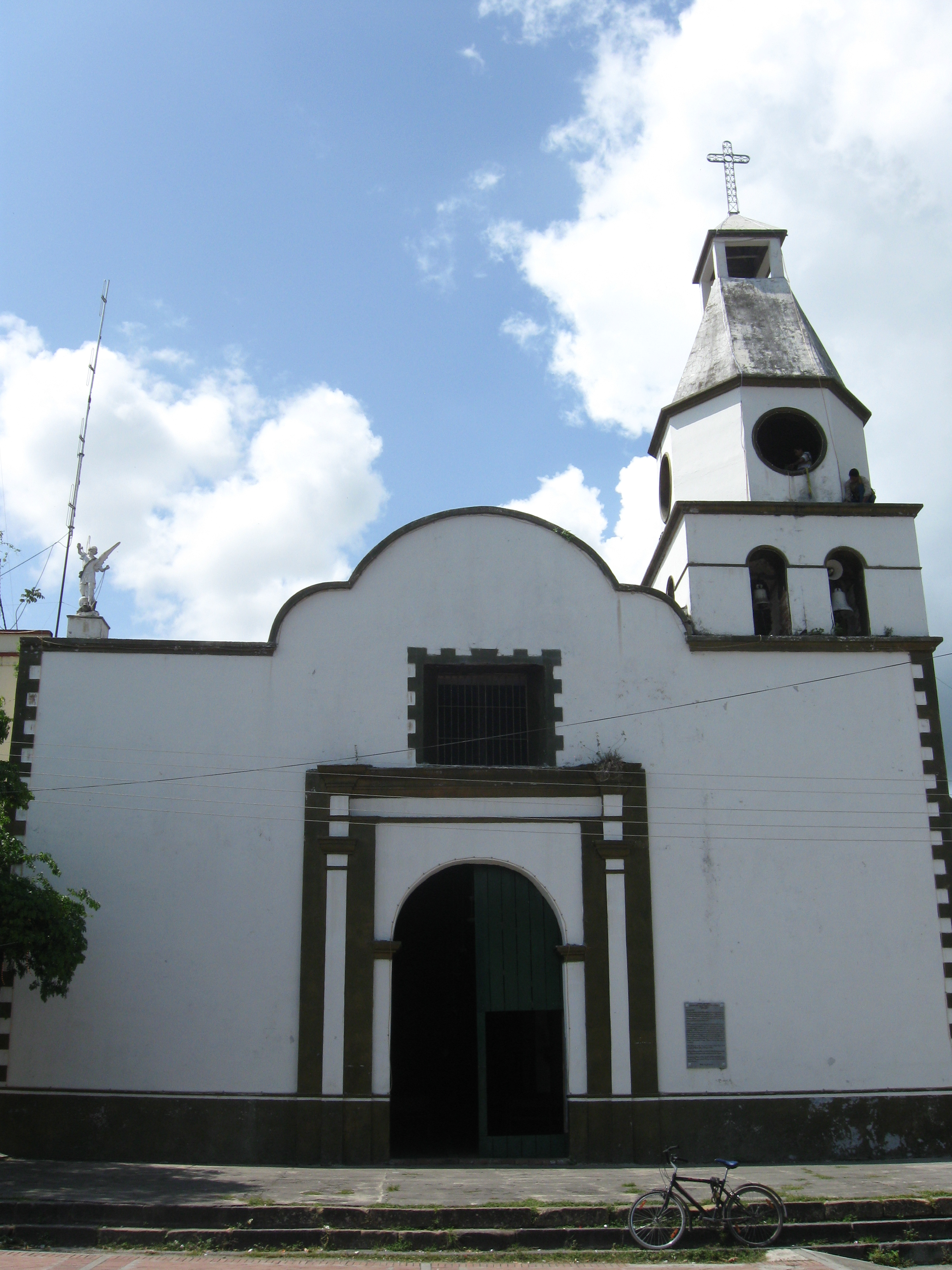 Coello's Central Park Church